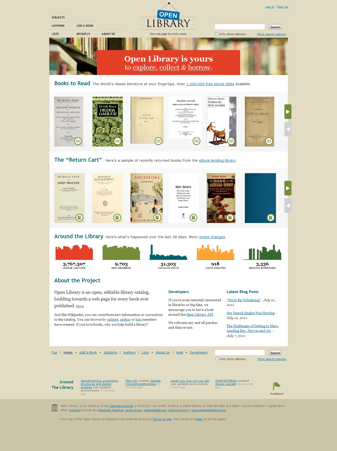 Screen capture of the Open Library home page.